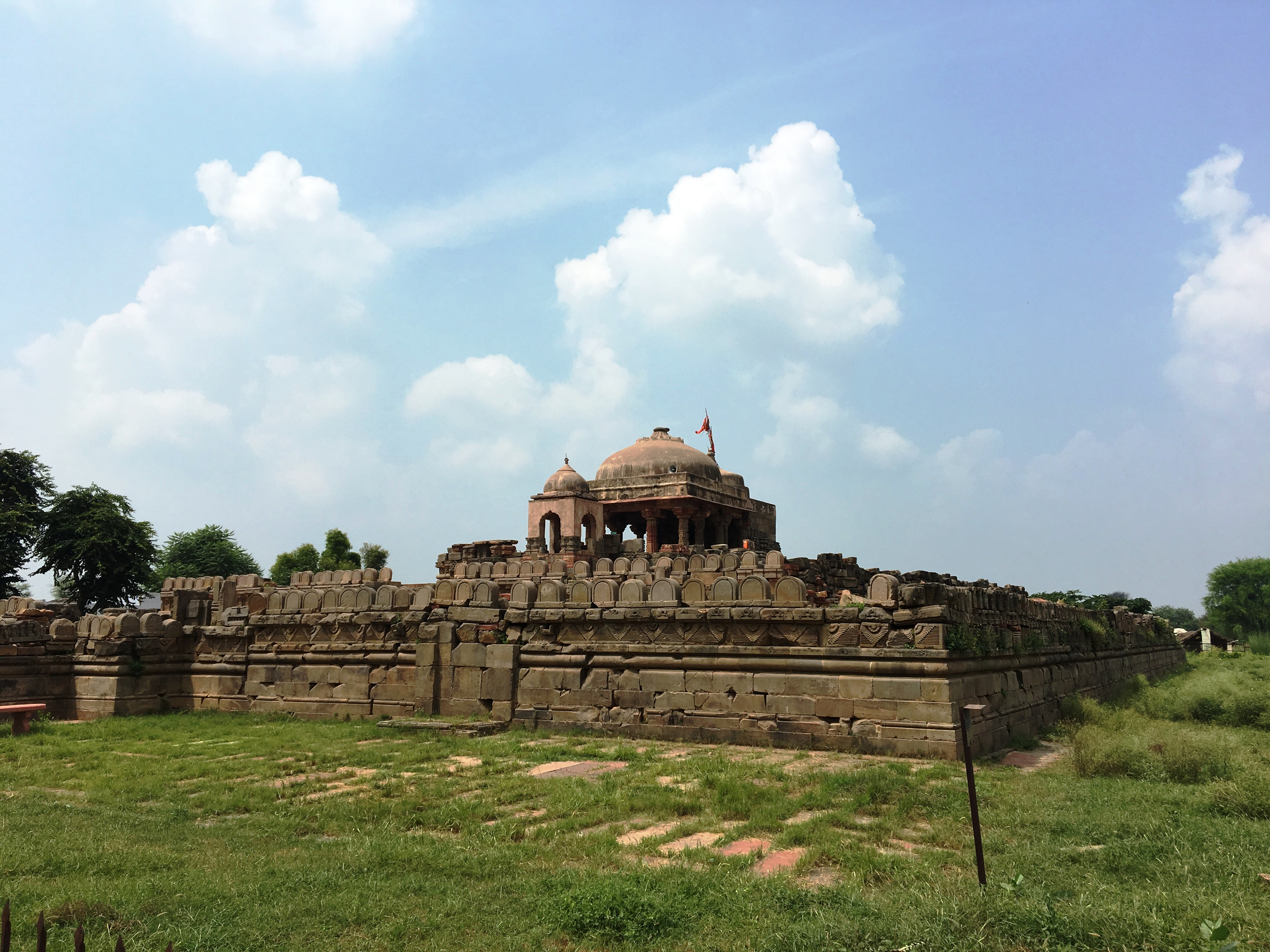 Harṣat Mātā ka Mandir